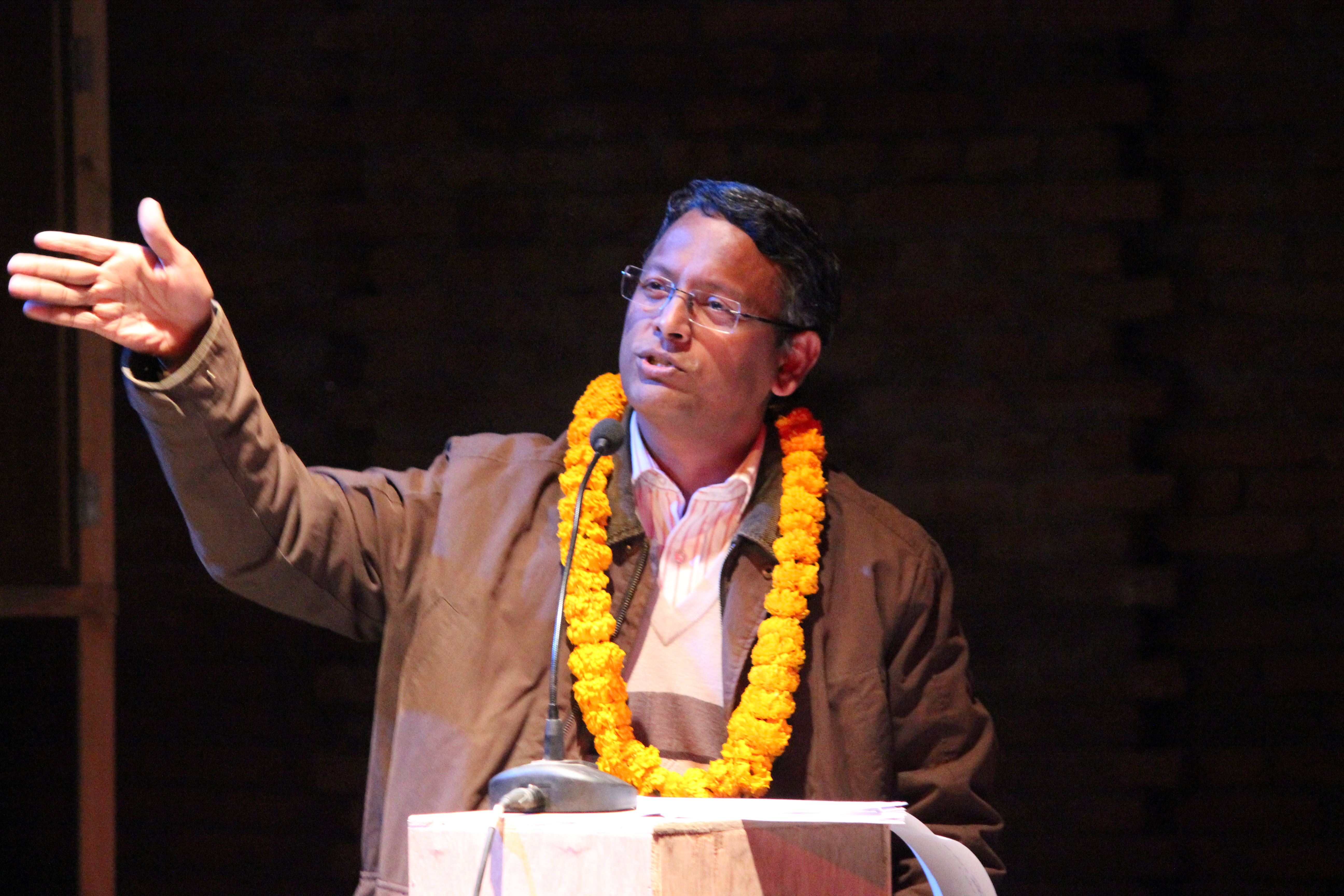 Ekal bachan 28 december 2013 shilpee theatre kathmandu